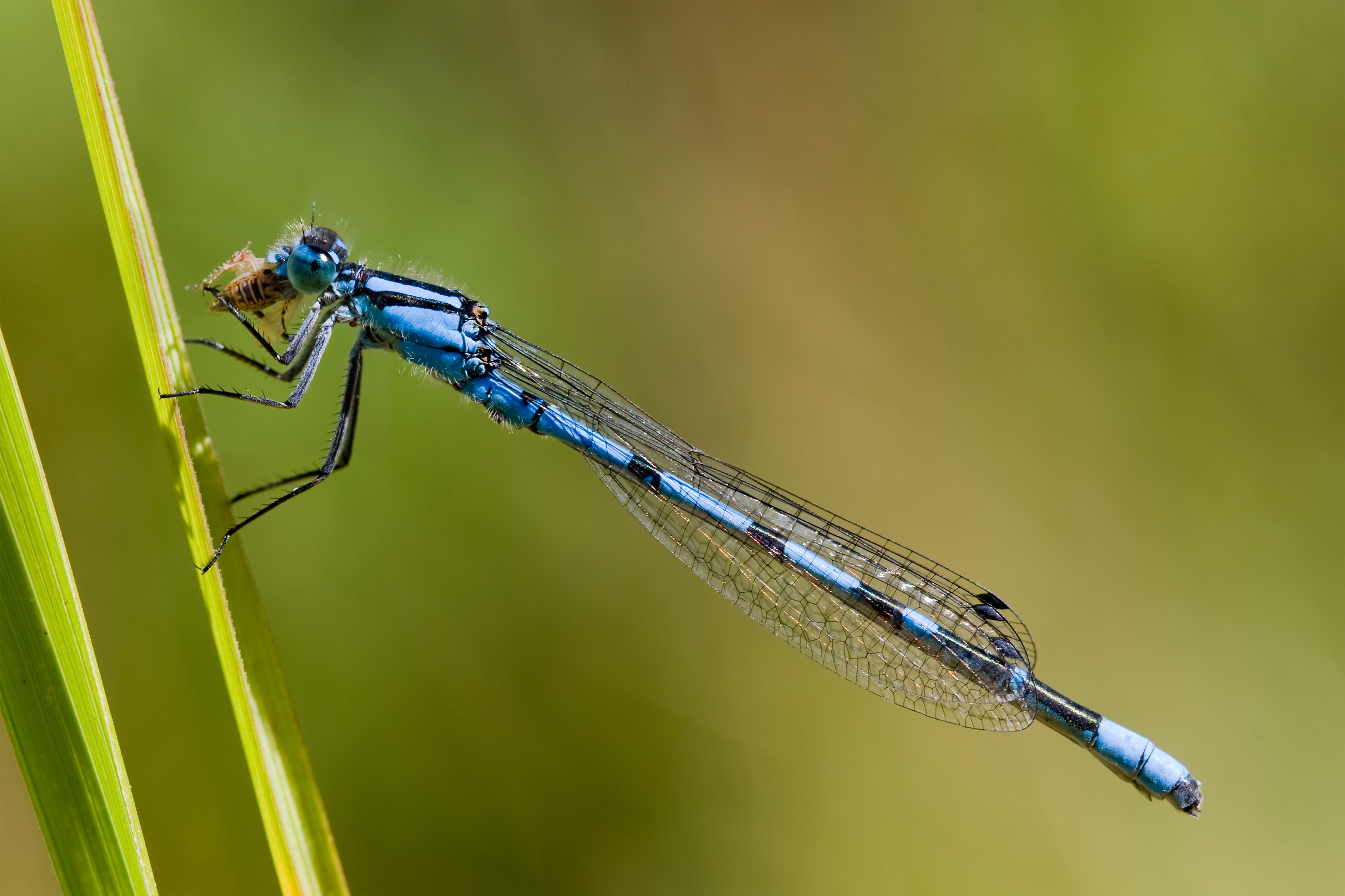 A male of the Common Blue Damselfly (Enallagma cyathigerum) in the Ahlenmoor, a peatland in northern Lower Saxony, Germany. The photo is part of a sequence that shows the complete consumption of a cicada by the damselfly. The entire process takes not much longer than four minutes.